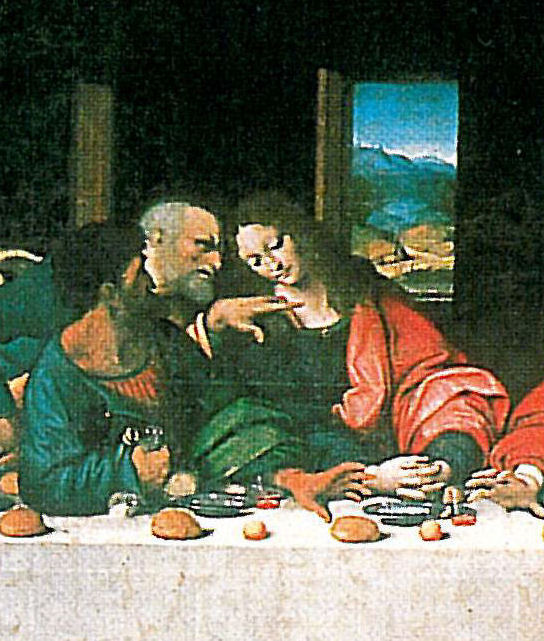 copy of Leonardo da Vinci's Last supper by an unknown 16th century artist